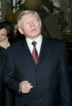 Director of the Russian Federal Space Agency Anatoly Perminov in S. A. Lavochkin Scientific-Production Enterprise. Khimki, Moscow Region.